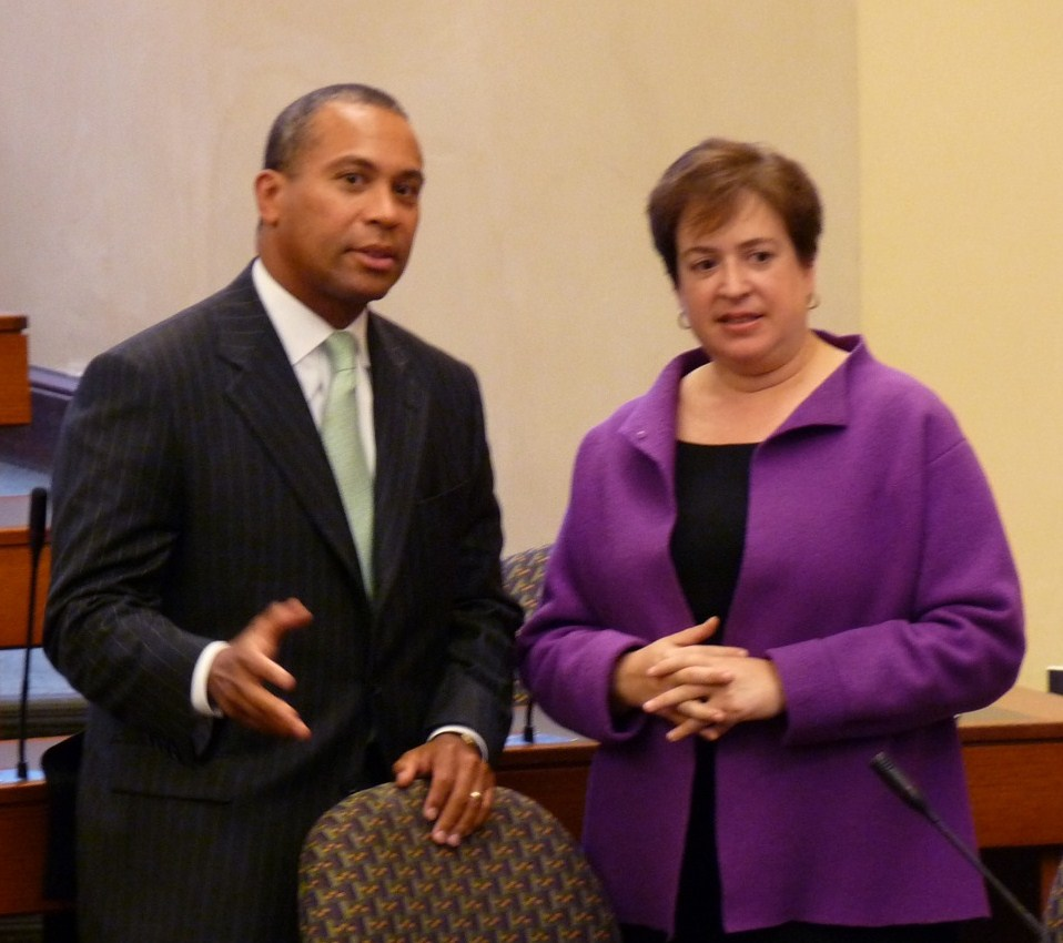 Harvard Law School Dean Elena Kagan with Massachusetts Governor Deval Patrick during an event at the school on Sept. 22, 2008.